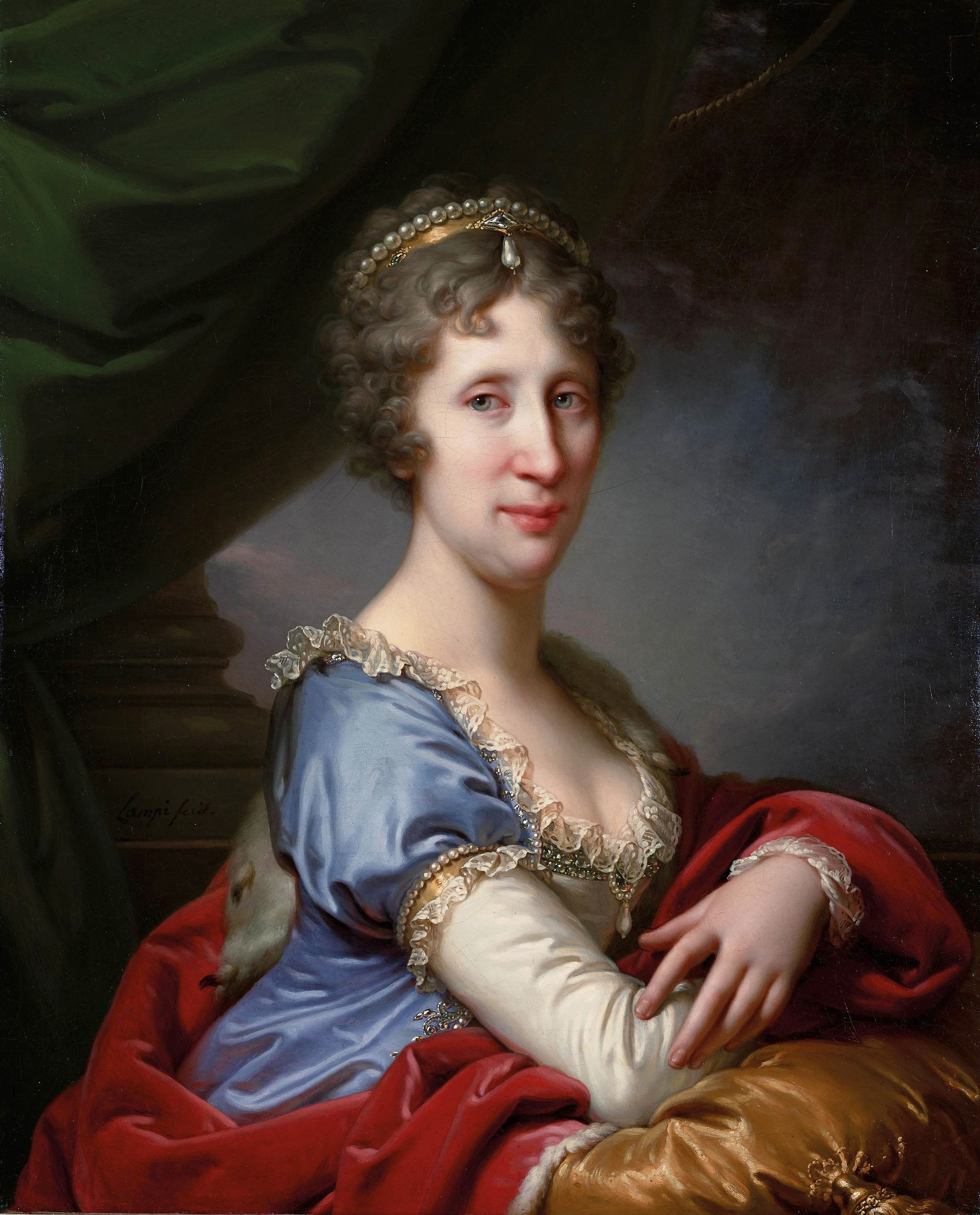 Portrait of Maria Theresa of Naples and Sicily (1772-1807)